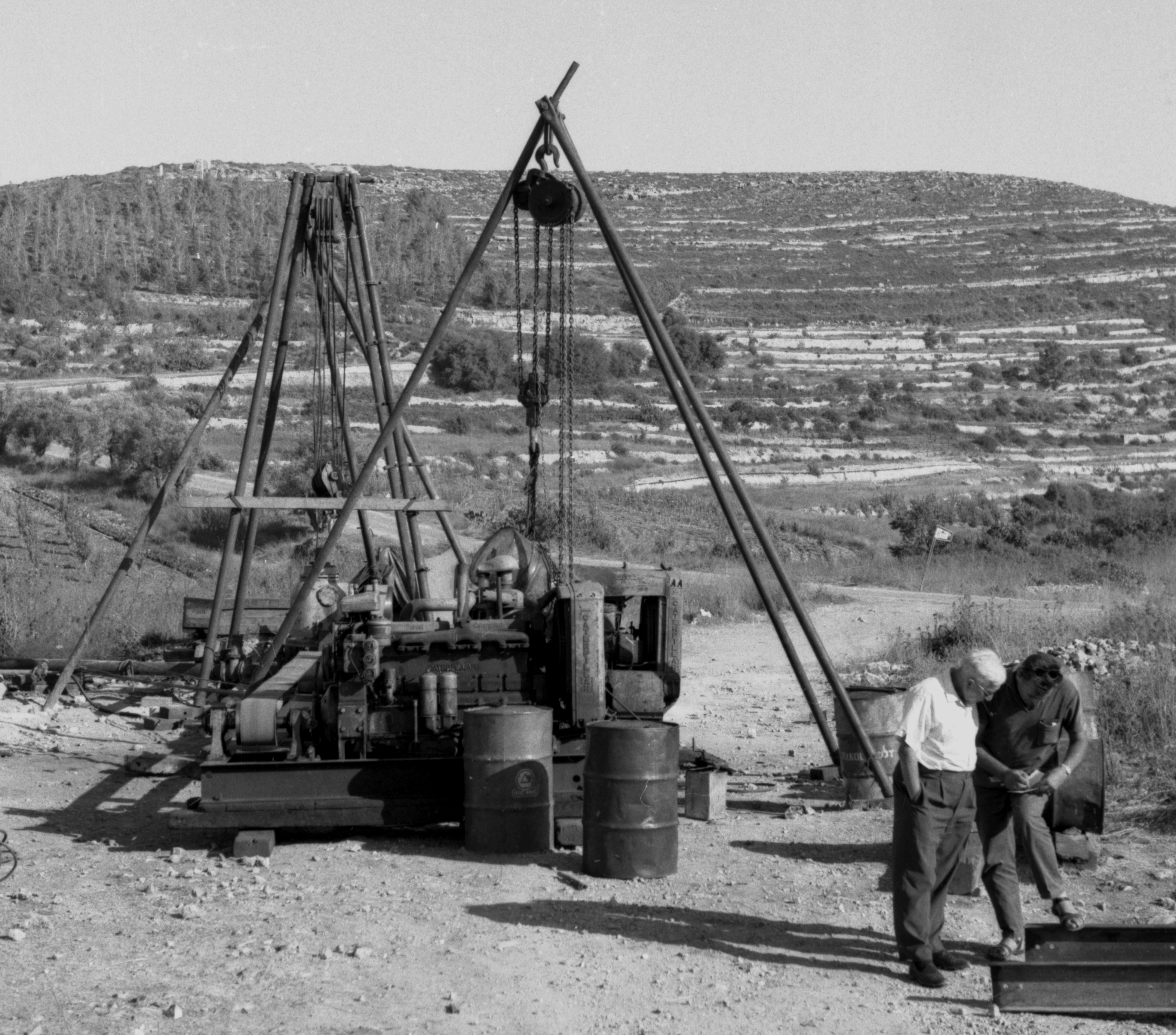 Israeli gelogist Leo Picard (white shirt) inspecting a drill of a water well in Ein Hemed, near Jerusalem (~1964)